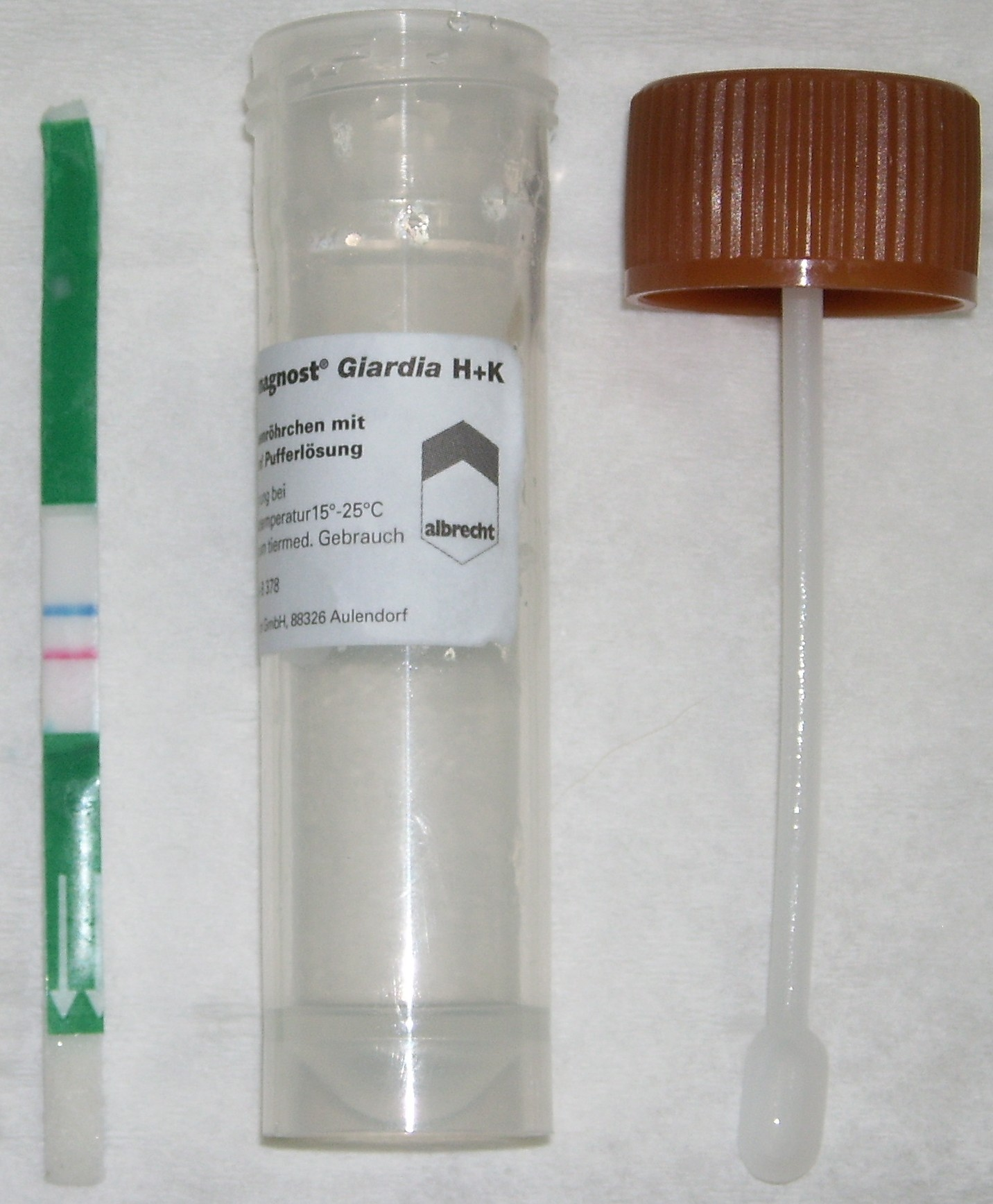 positive Giardia-Quicktest